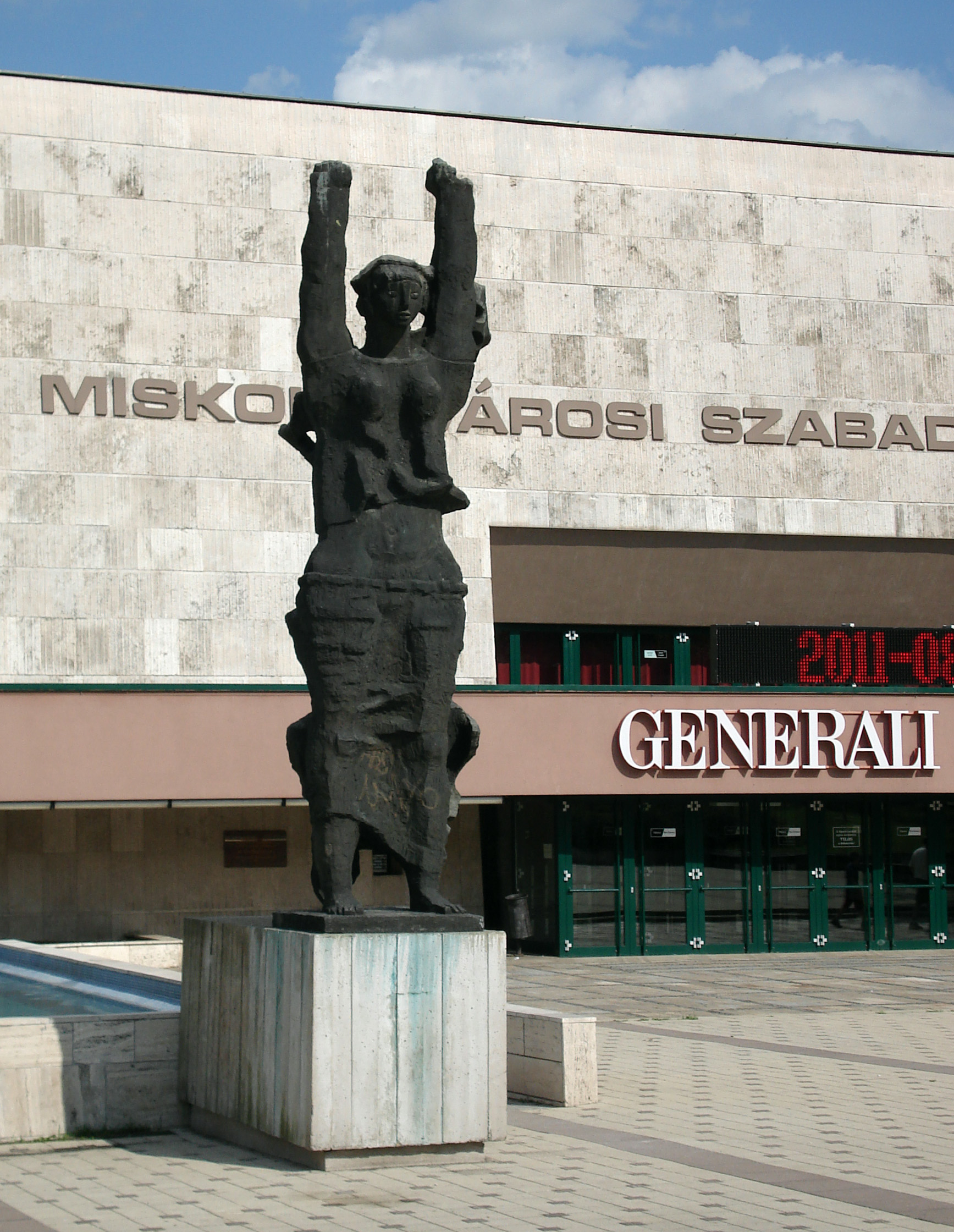 Statue – Jenő Kerényi: Genius. Miskolc, Hungary